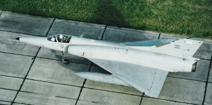 Argentine Air Force IAI Finger at Tandil Air Force Base